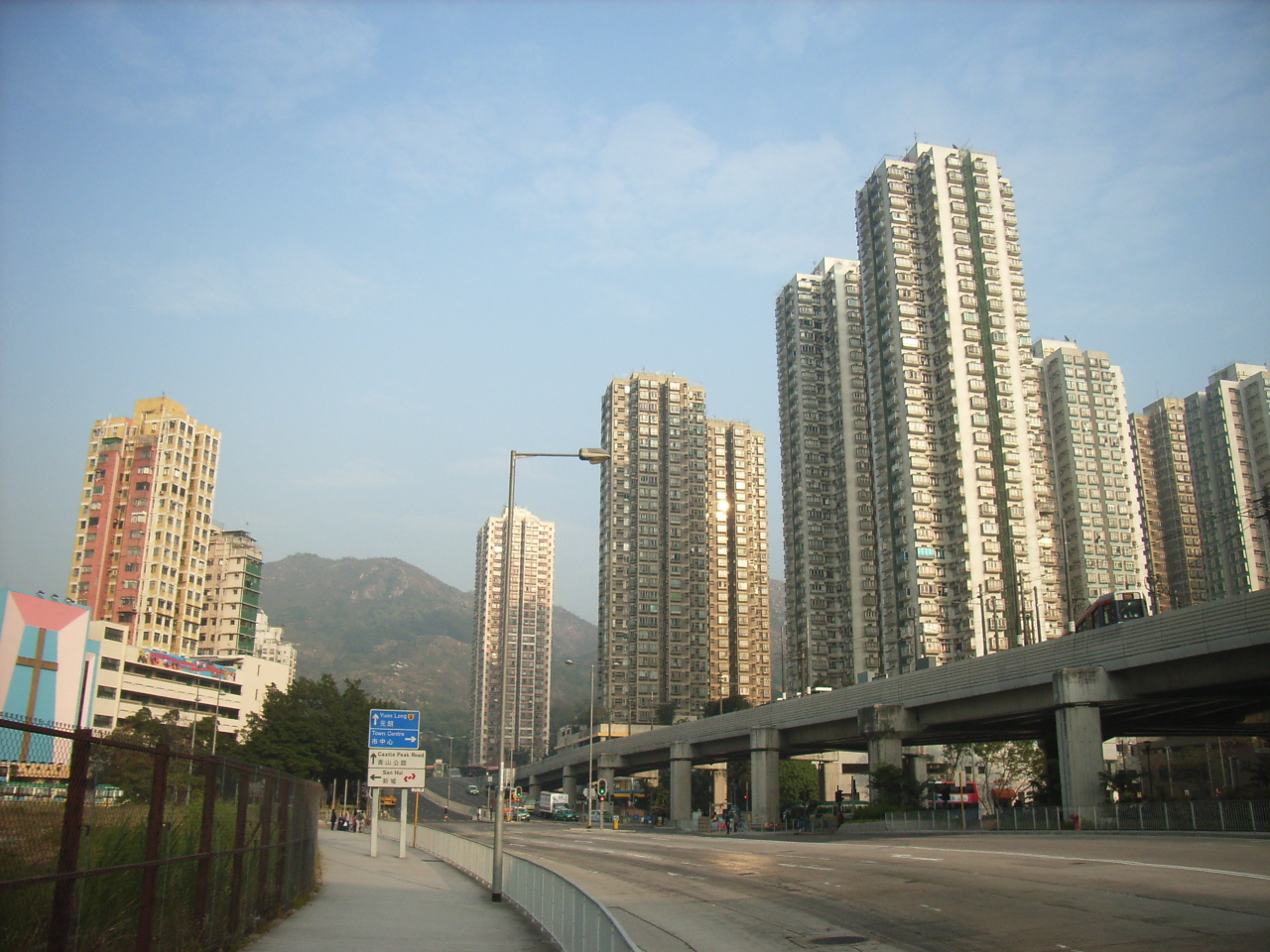 Pui To Road, 杯渡路, Tuen Mun, New Territories, Hong Kong. (Photo created by User:TUmuMATo)。